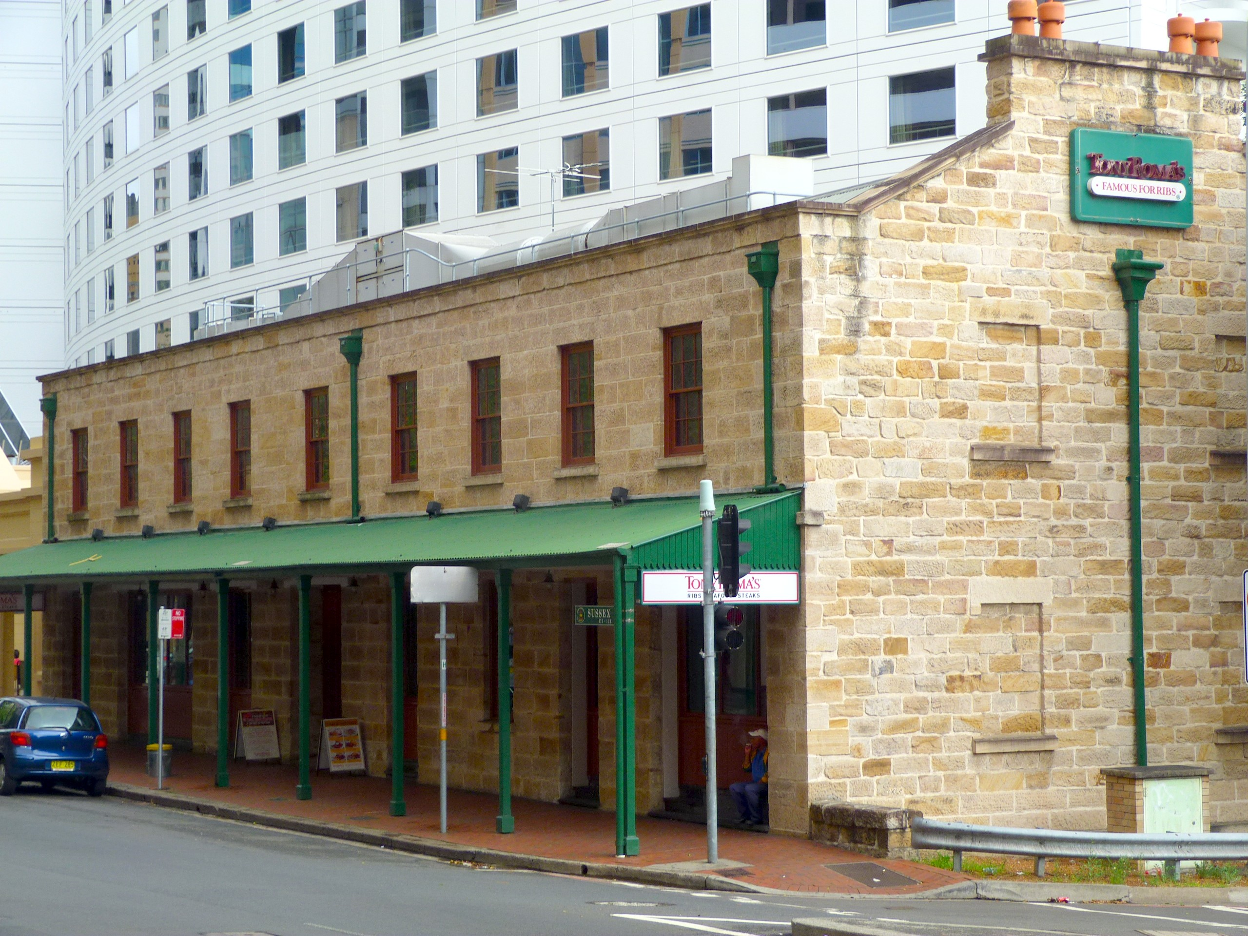 121-127 Sussex Street, Sydney, is located in the Sydney central business district, New South Wales, Australia. This property is listed on the New South Wales State Heritage Register.